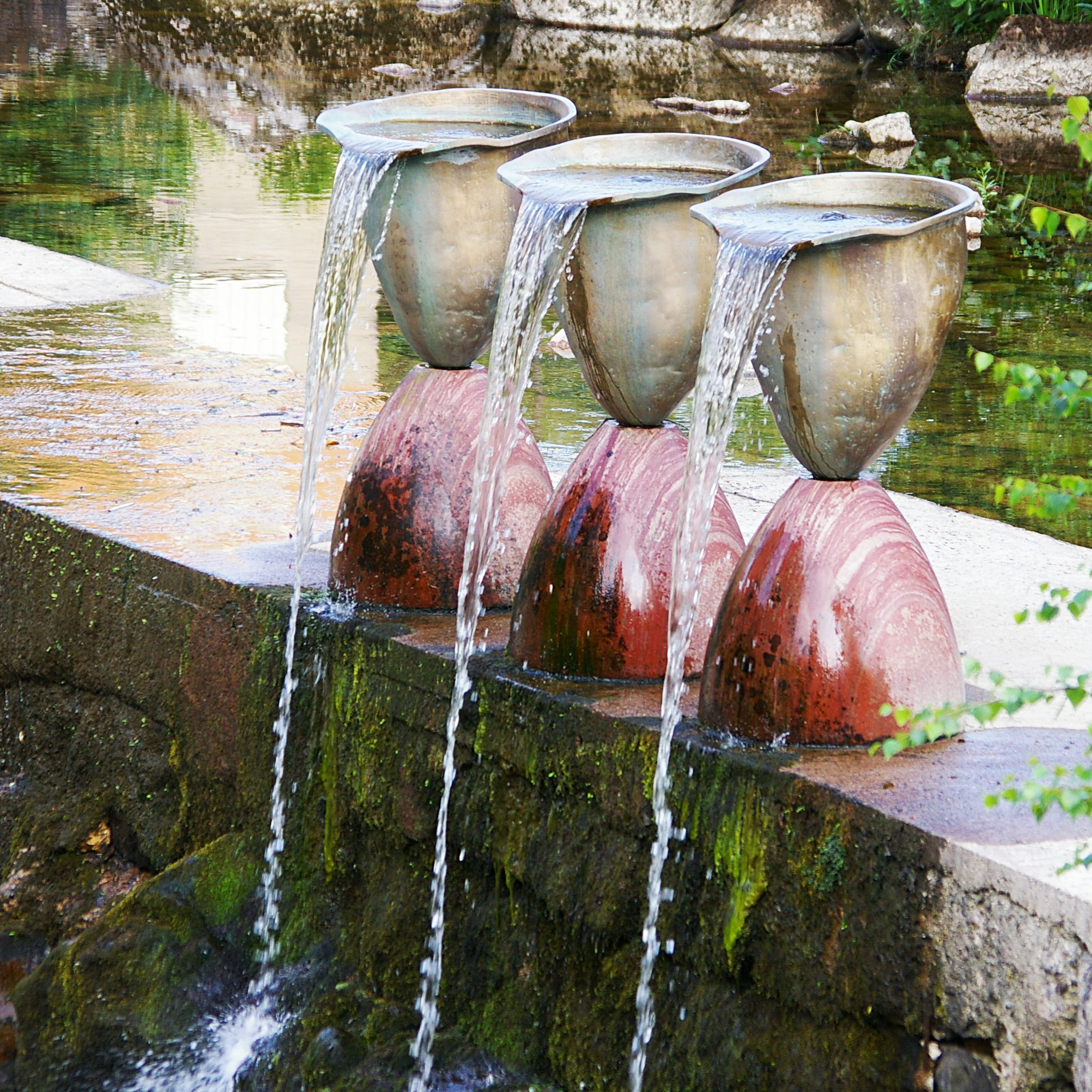 The sculpture Tre källor by Dag Birkeland (1957–), erected 2001 in Kvarndammen in Tannefors, Linköping, Sweden.